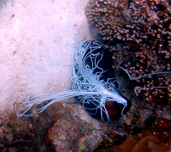 Sea cucumber in Mahé, Seychelles ejects sticky filaments from the anus in self-defence. Category:marine biology